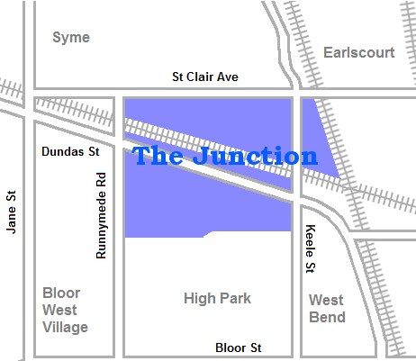 map of The Junction